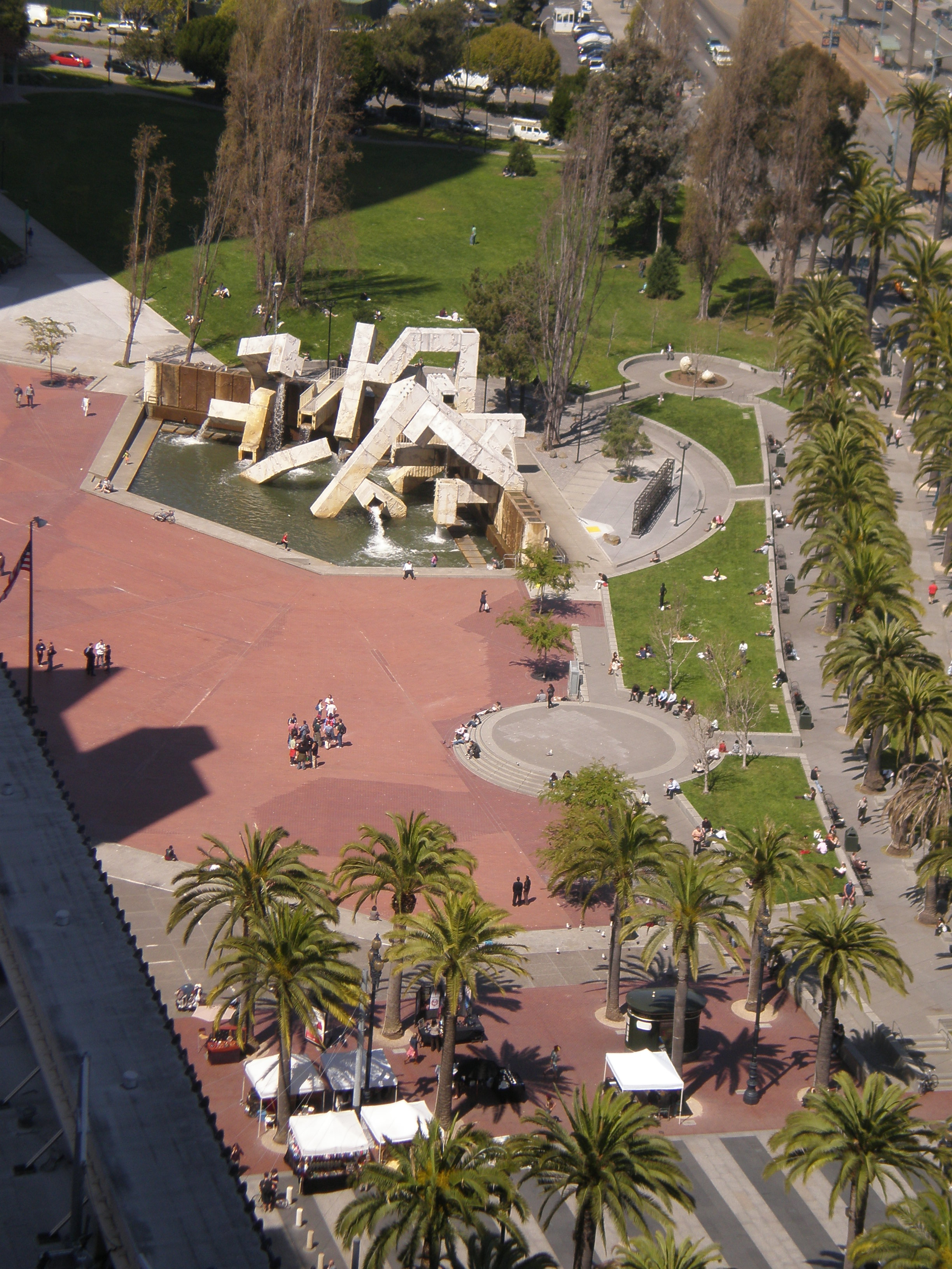 Justin Herman Plaza, with the Vaillancourt Fountain — on The Embarcadero in San Francisco. As seen from the Steuart Tower, on Market Street.